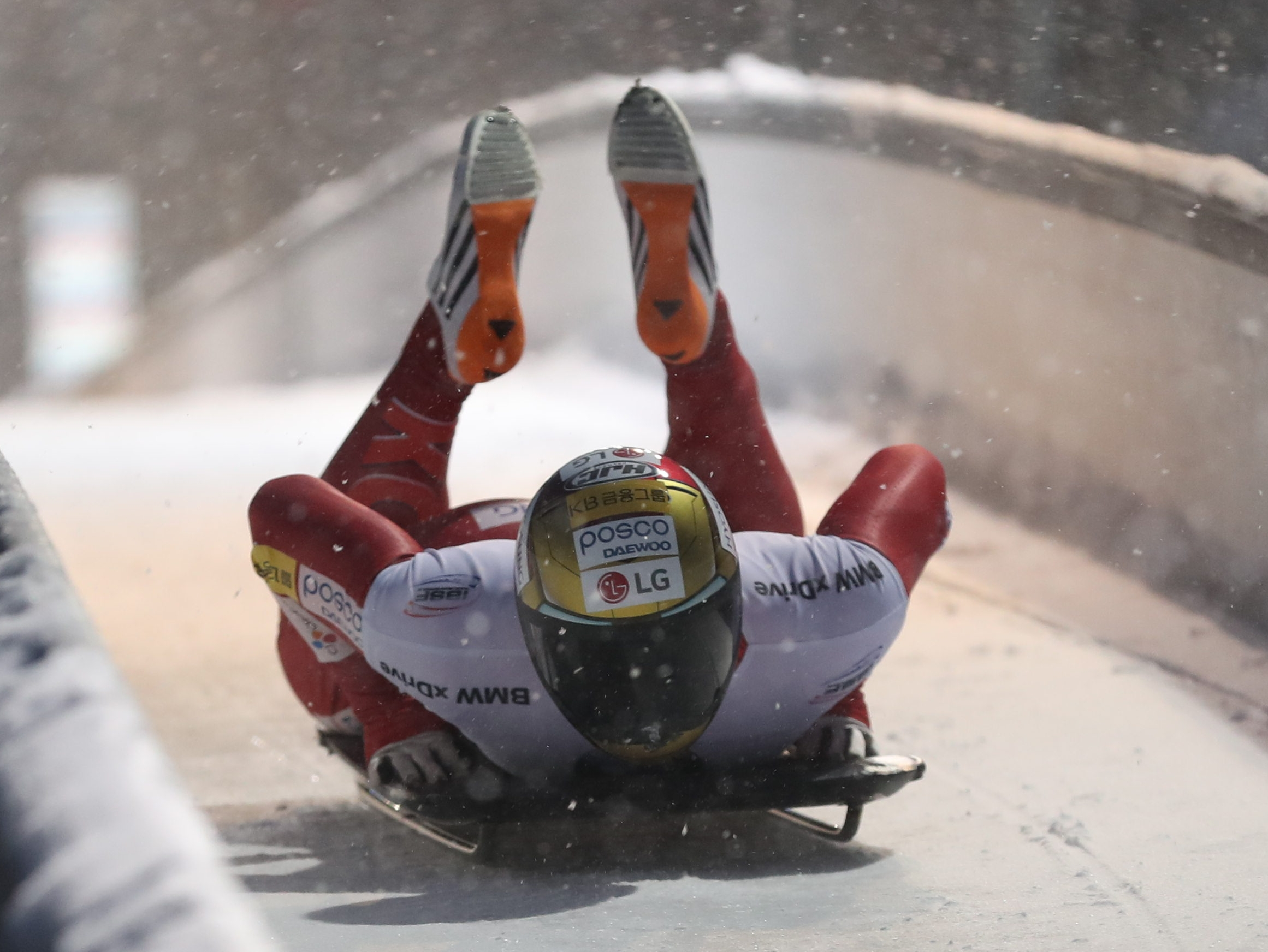 Men's World Cup race at the 2018/19 Skeleton World Cup in Altenberg